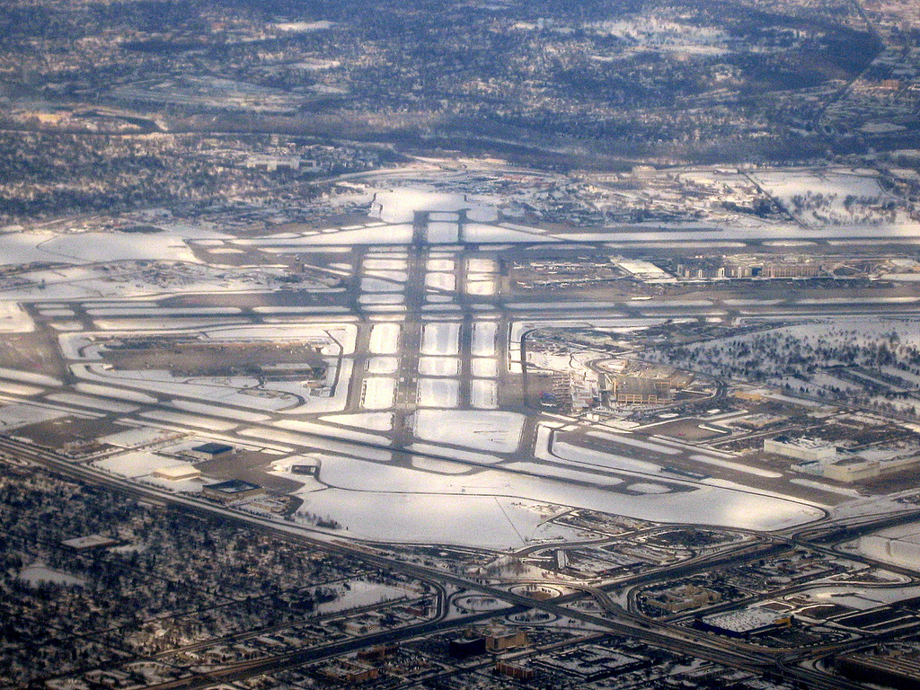 Minneapolis St. Paul International Airport (MSP), Minnesota (USA), on 3 March 2009.